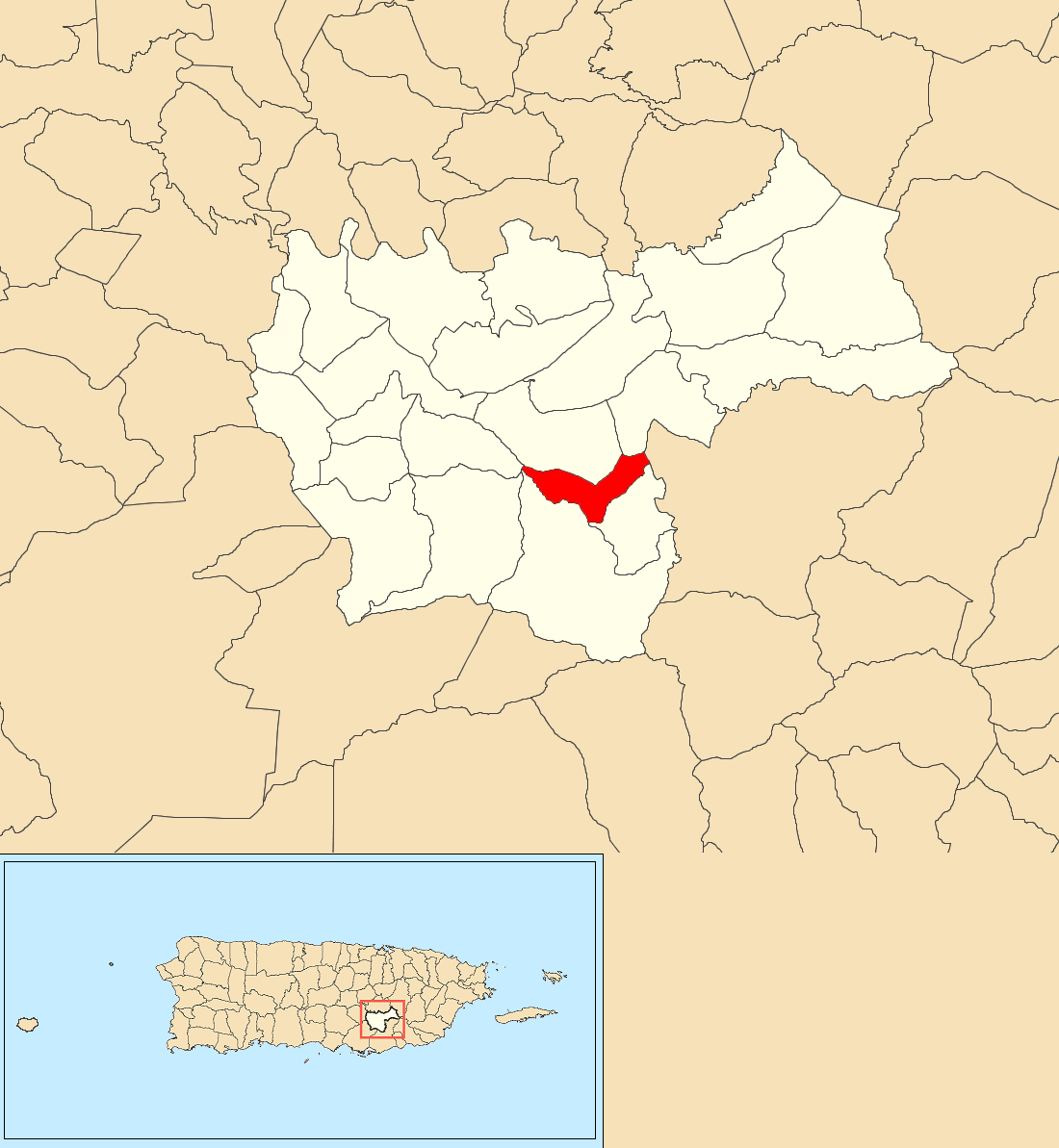 Culebras Bajo, Cayey, Puerto Rico locator map